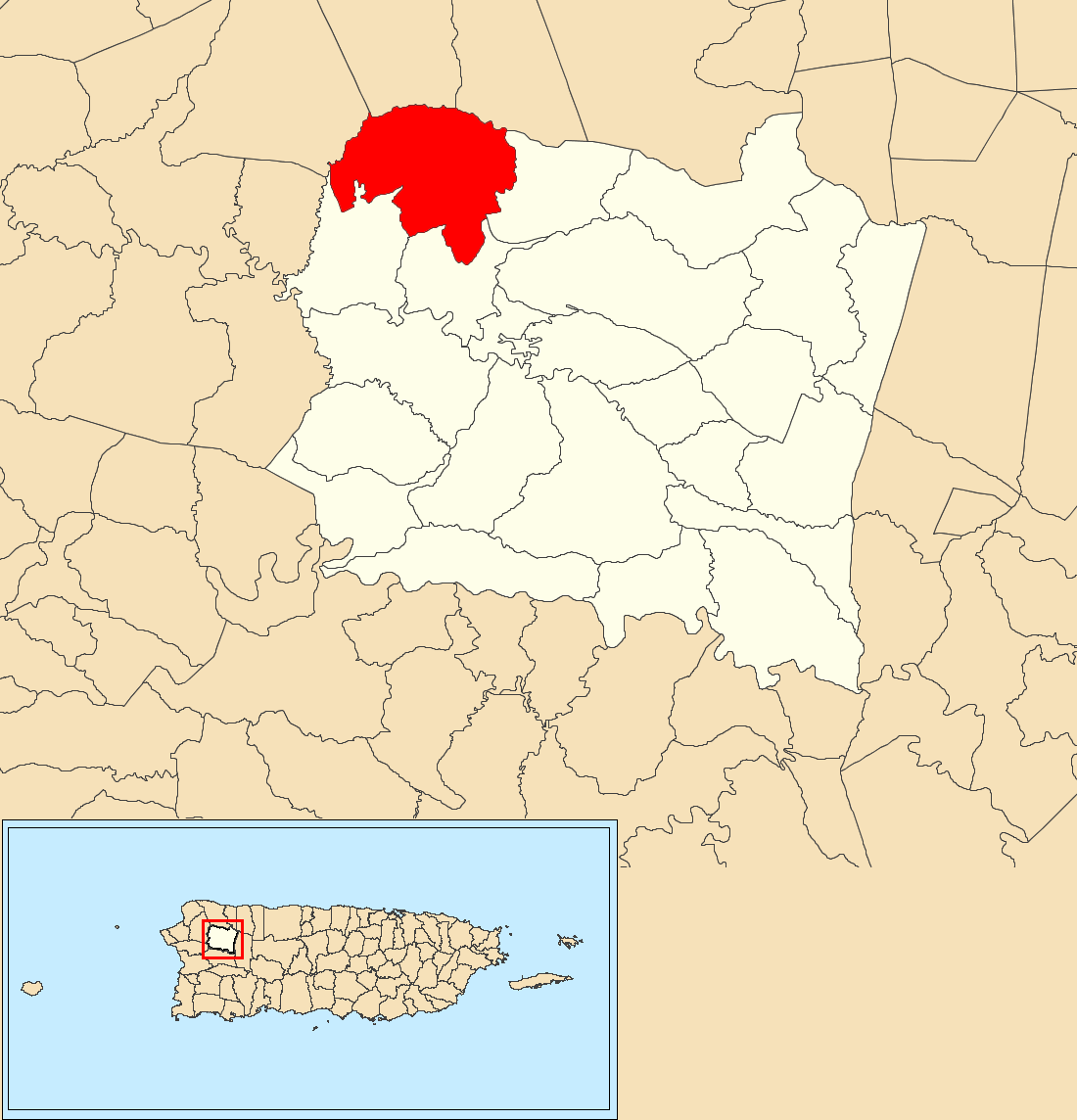 Salto, San Sebastián, Puerto Rico locator map